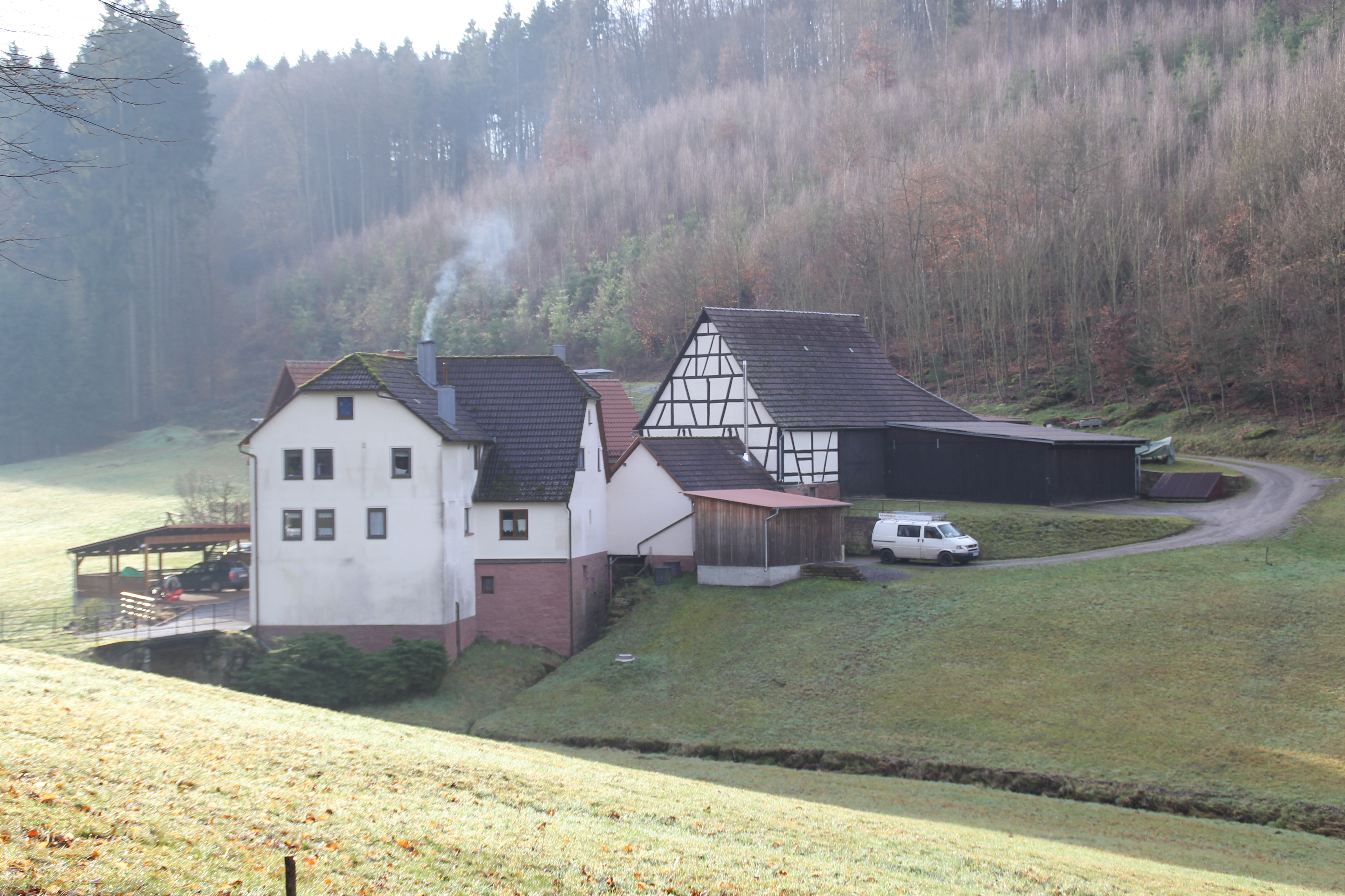 The Heinrichsmühle at the Wachenbach near Esselbach in the Landkreis Main-Spessart, Bavaria